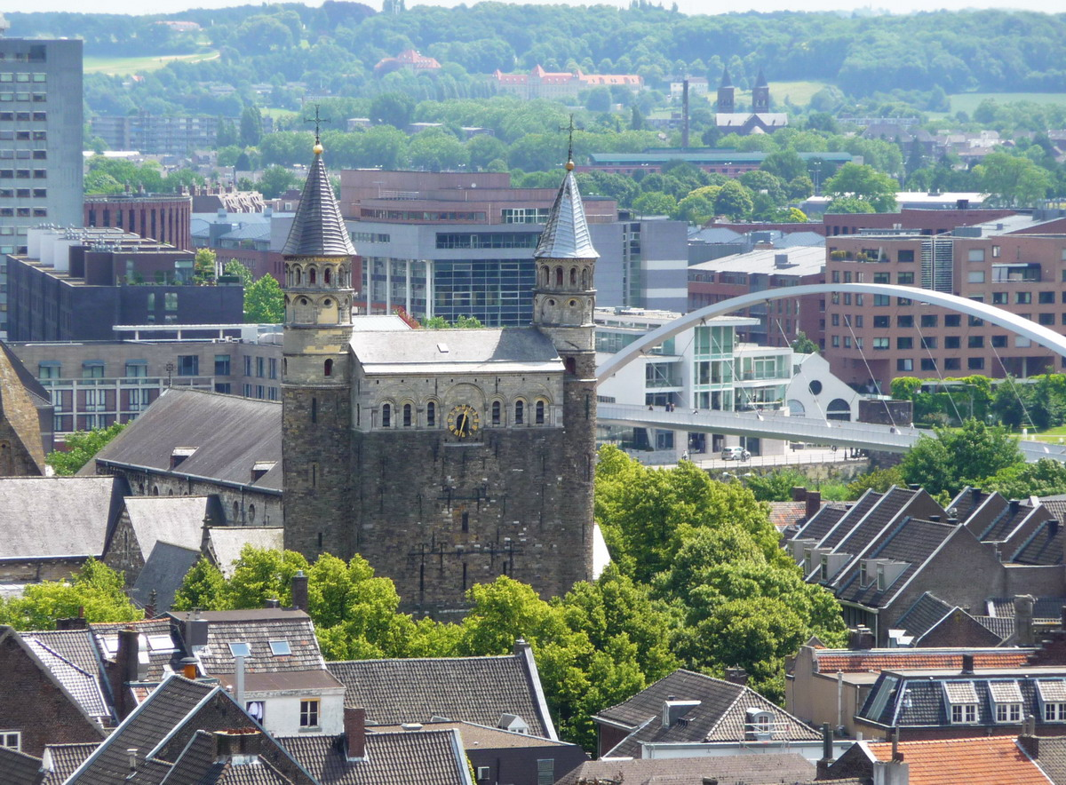 Basilica of Our Lady, Maastricht, Netherlands. View of the city.